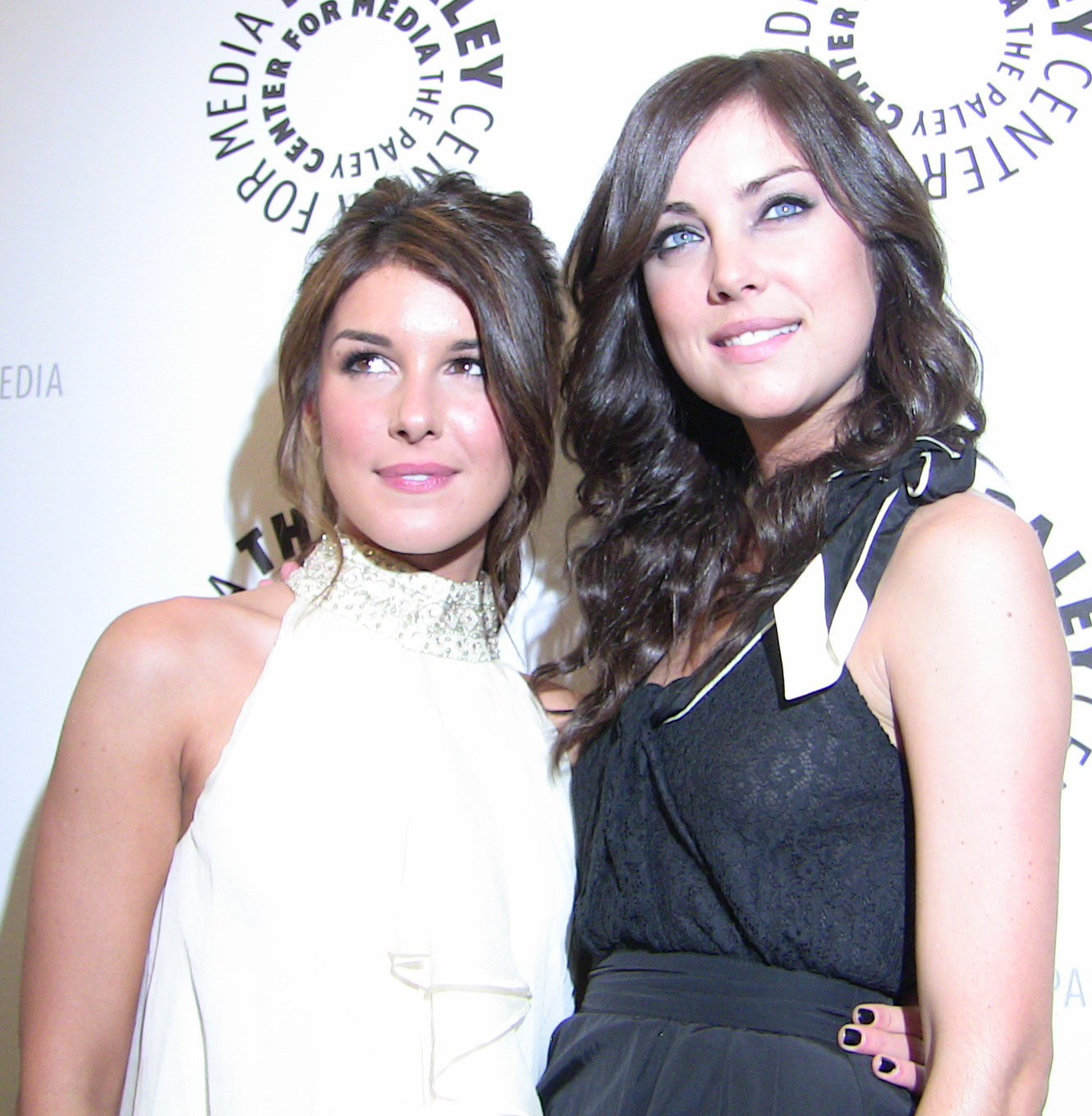 Shenae Grimes and Jessica Stroup at 90210 Paley Fest. William S. Paley Center, Beverly Hills, California